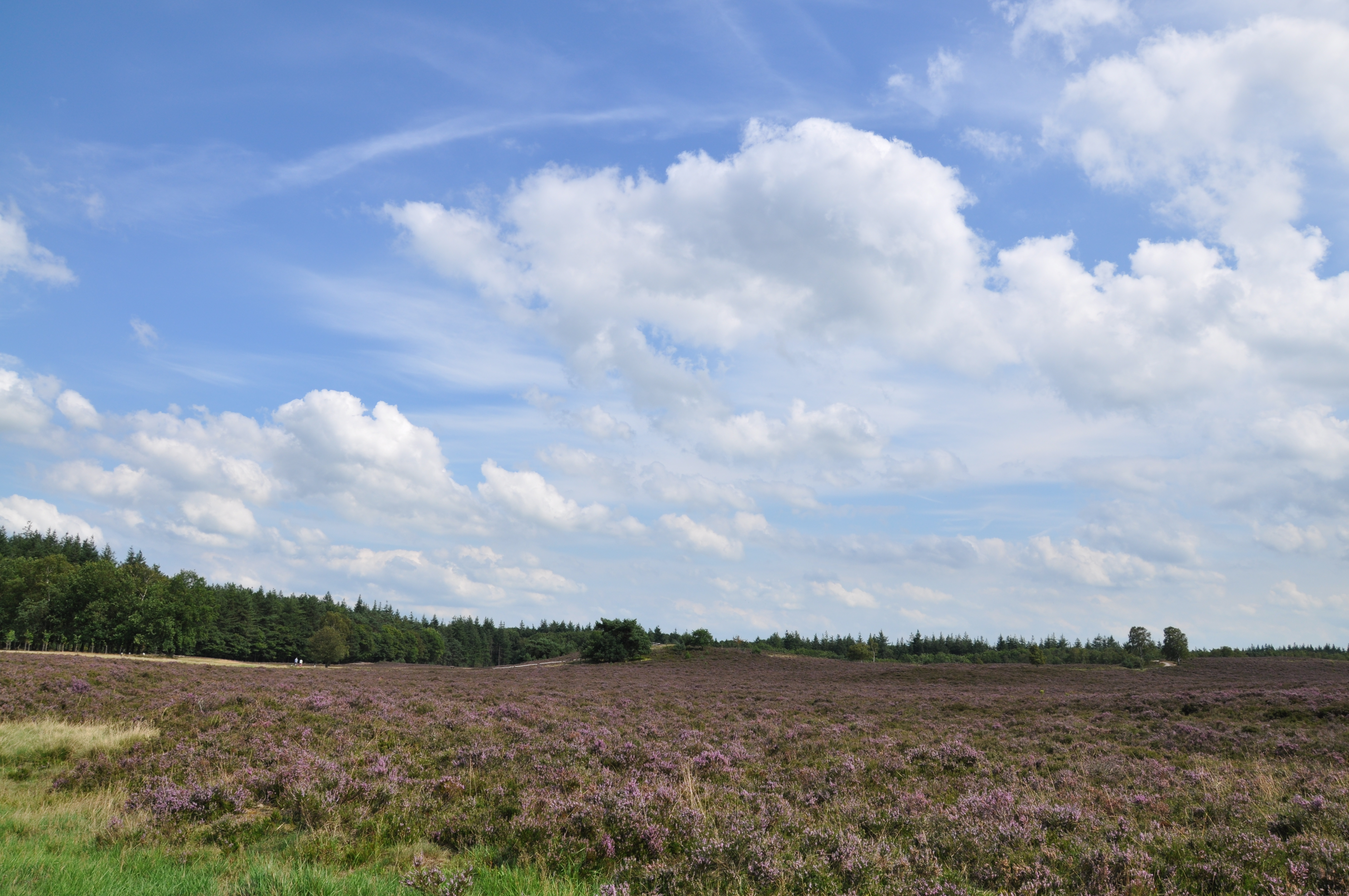 Renderklippen, Veluwe the Netherlands